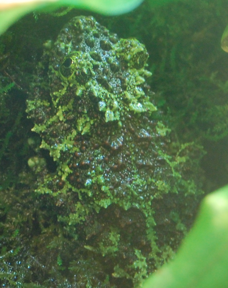 Mossy frog (Theloderma corticale) at the New England Aquarium, Boston MA.